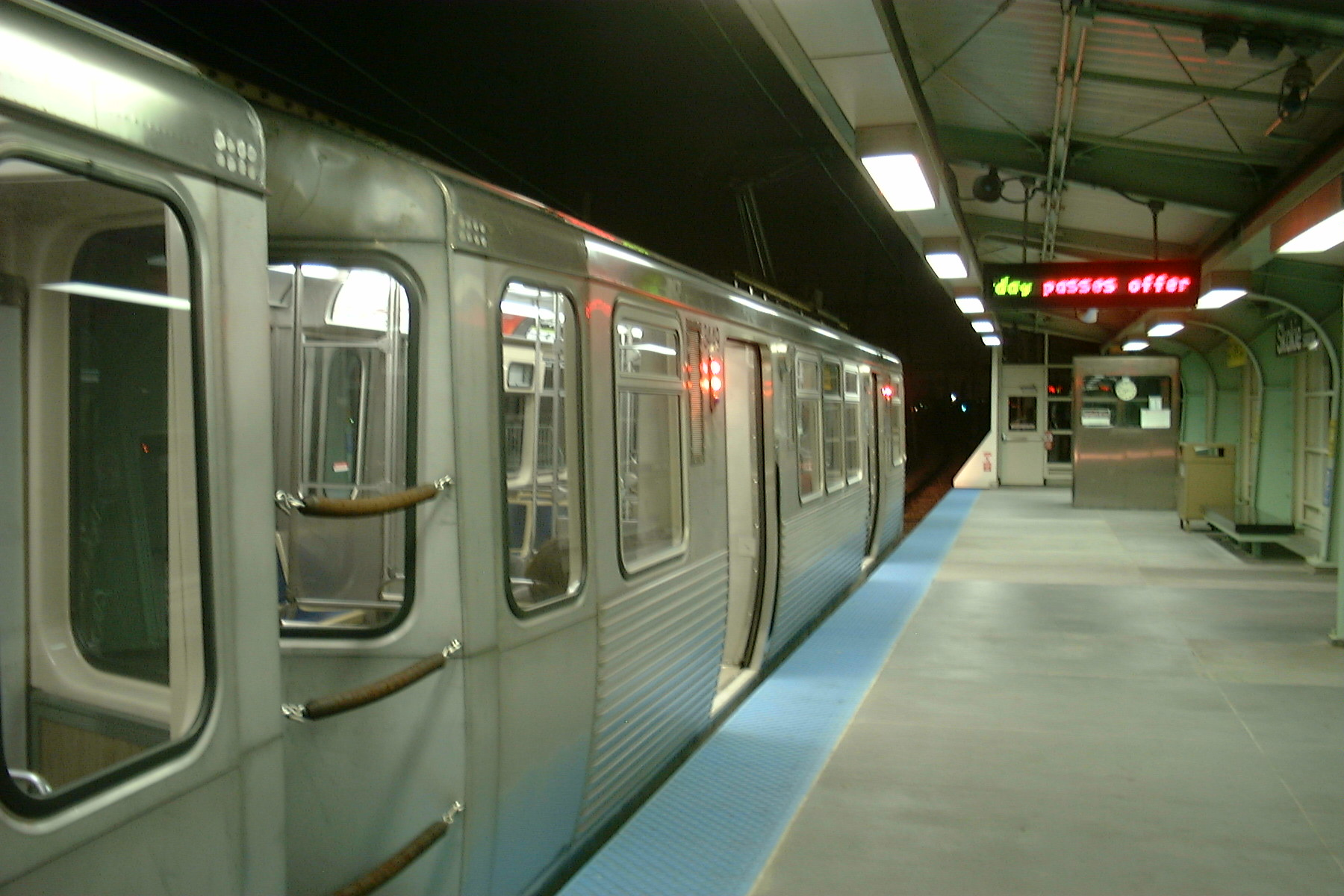 Yellow Line 'L' train at Dempster, Skokie, Illinois Photo by LHOON Featured on Flickr